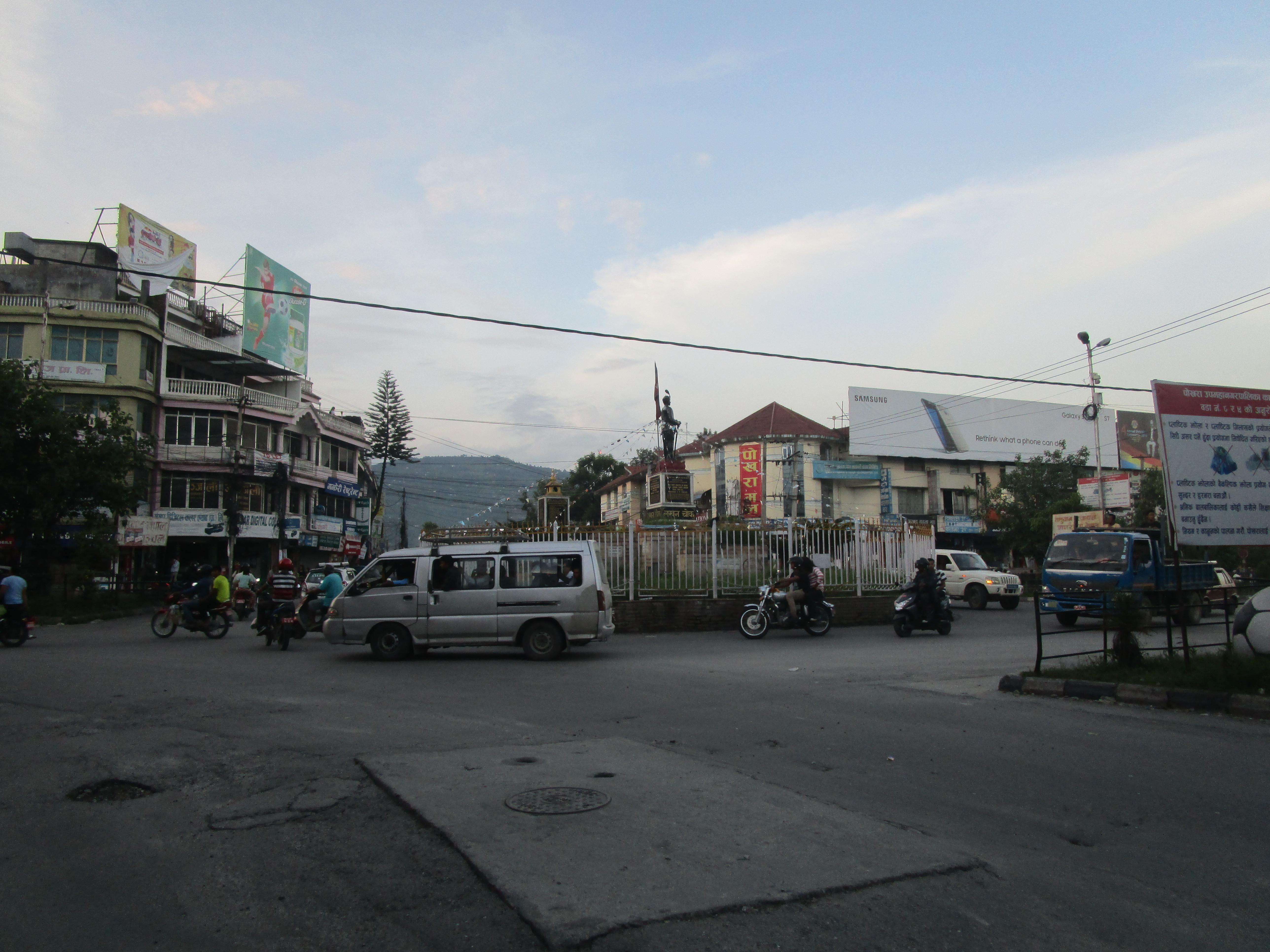 Lakhan Chowk or Prithvi Chowk